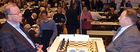 Wolfgang Uhlmann and Aleksej Shestoperov, Senior Chess World Championship 1999 at Gladenbach in Germany.